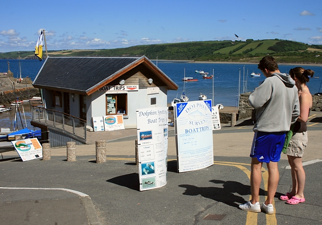 Will we see one? Boat trips from New Quay will often yield sightings of the bottlenose dolphins which are common in Cardigan Bay.